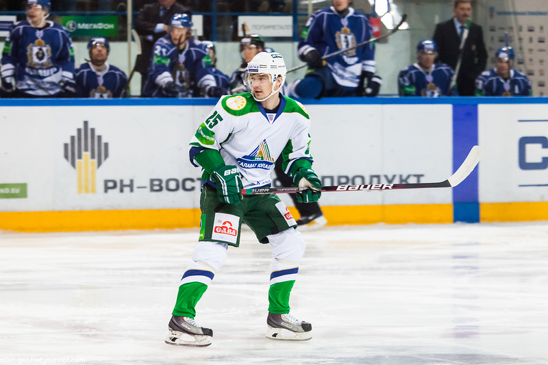 HC Salavat Yulaev Ufa forward Denis Parshin during KHL game against Amur Khabarovsk on October 23, 2012.